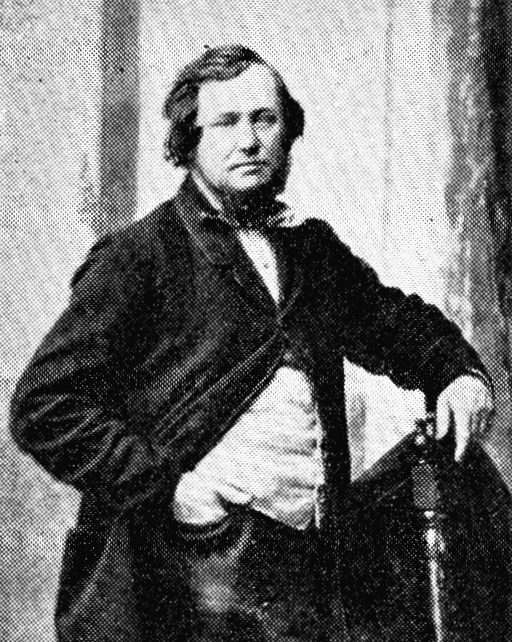 Shirley Brooks, one of the editors of Punch. Image scanned from M.H. Spielmann's The History of "Punch" (Cassell & Sons, 1895) The image is credited there as "From a photograph by Lombardt and. Co"; since the photograph had to have been taken before Brooks' death in 1874, all copyright has now expired.